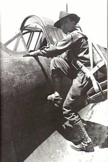 Kaiapit, New Guinea. Brigadier I. N. Dougherty boards an aircraft to undertake a tactical reconnaissance.